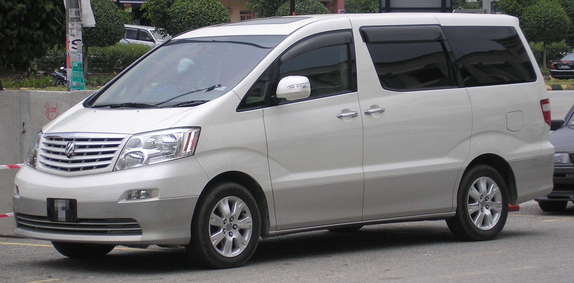 Front-side shot of a first generation Toyota Alphard, in Serdang, Selangor, Malaysia.